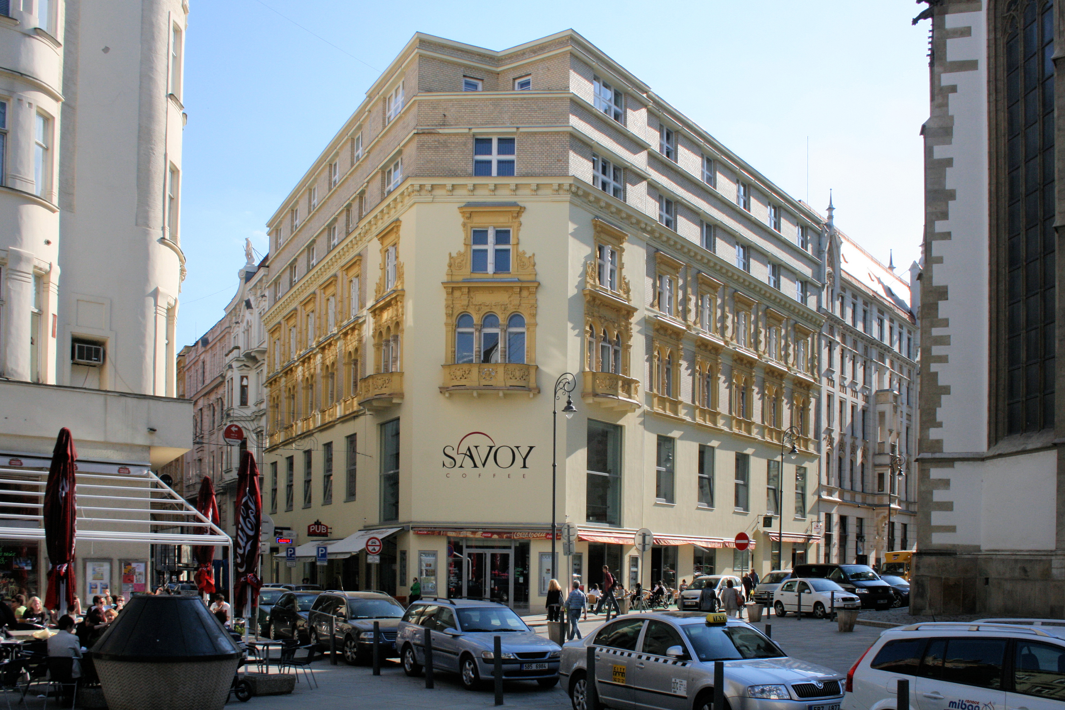 Café Savoy at Jakubské square, Brno, Czech Republic.